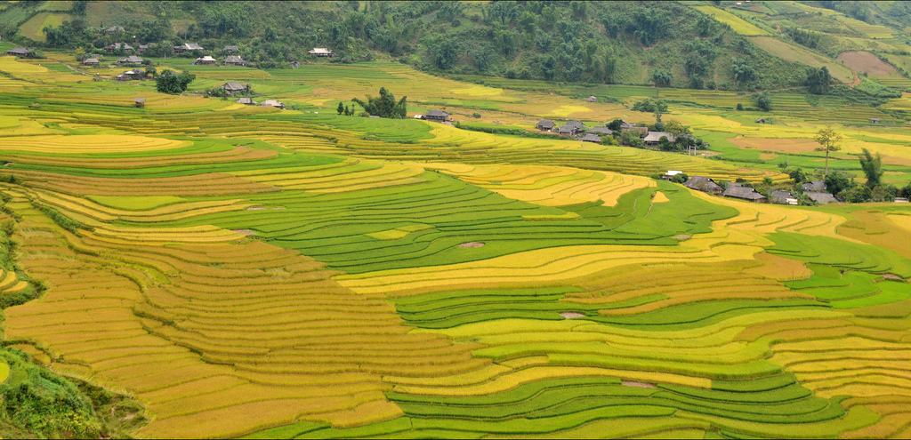 Rice Terraces in Lim Mong Valley, Mu Cang Chai District, Yen Bai Province, Vietnam